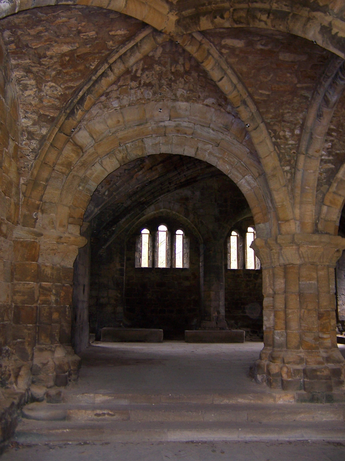 chapter house of Kirkstall Abbey in Leeds, Yorkshire (England) own work; photo taken on 30 April 2006